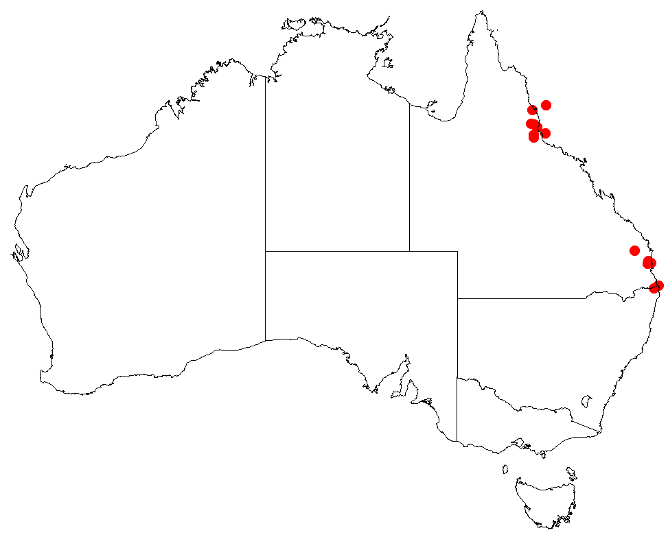 Parsonsia largiflorens Occurrence data for Australia from Australasian Virtual Herbarium downloaded 22 December 2018